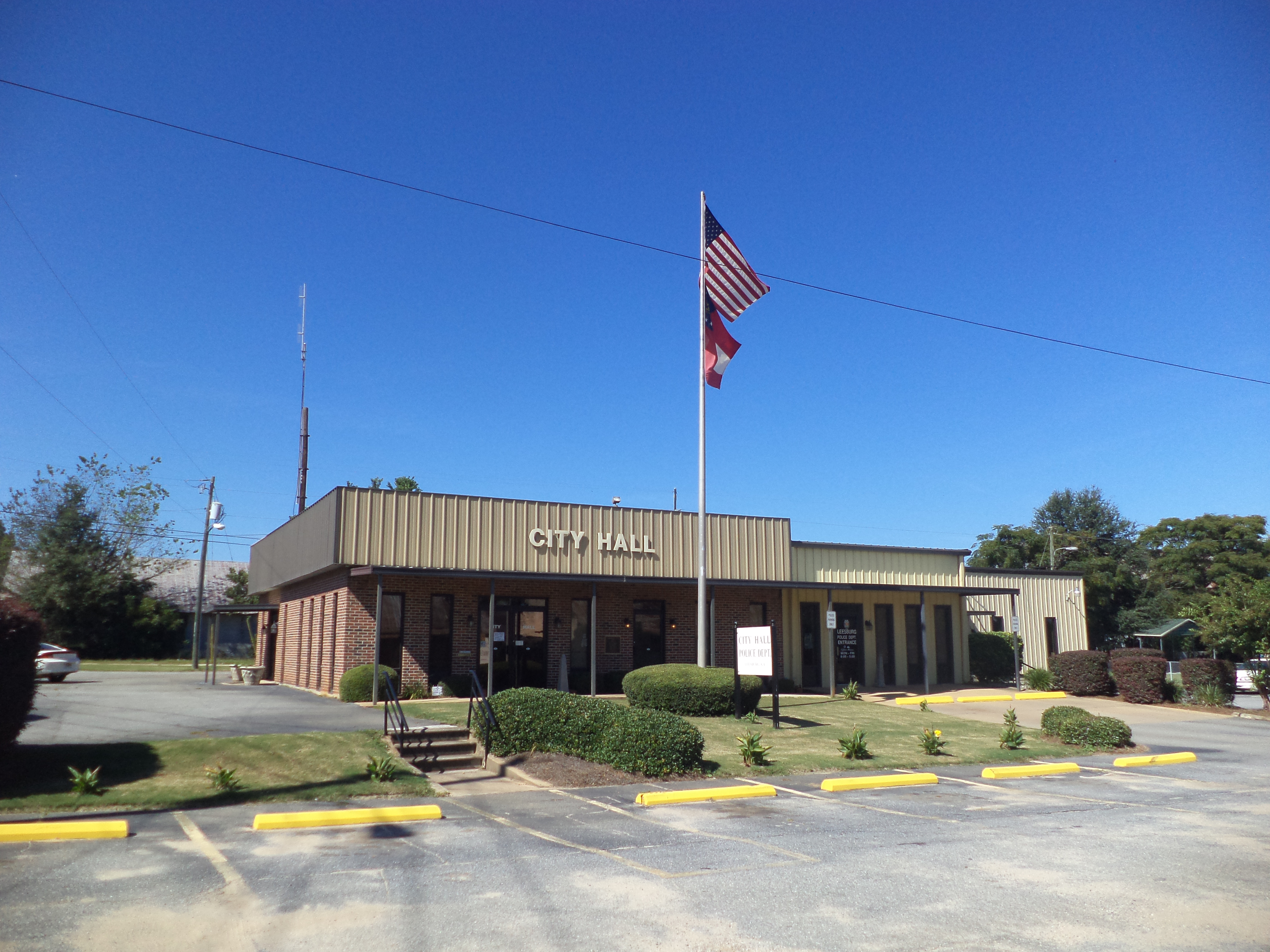 Leesburg City Hall & Police Department, Leesburg, Lee County, Georgia